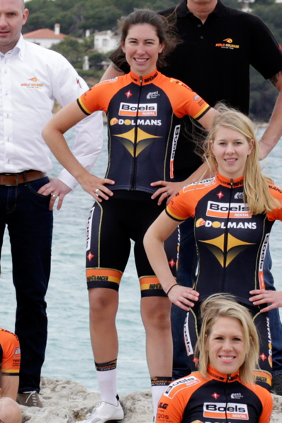 Emma Trott of the Boels Dolmans Cycling Team 2014